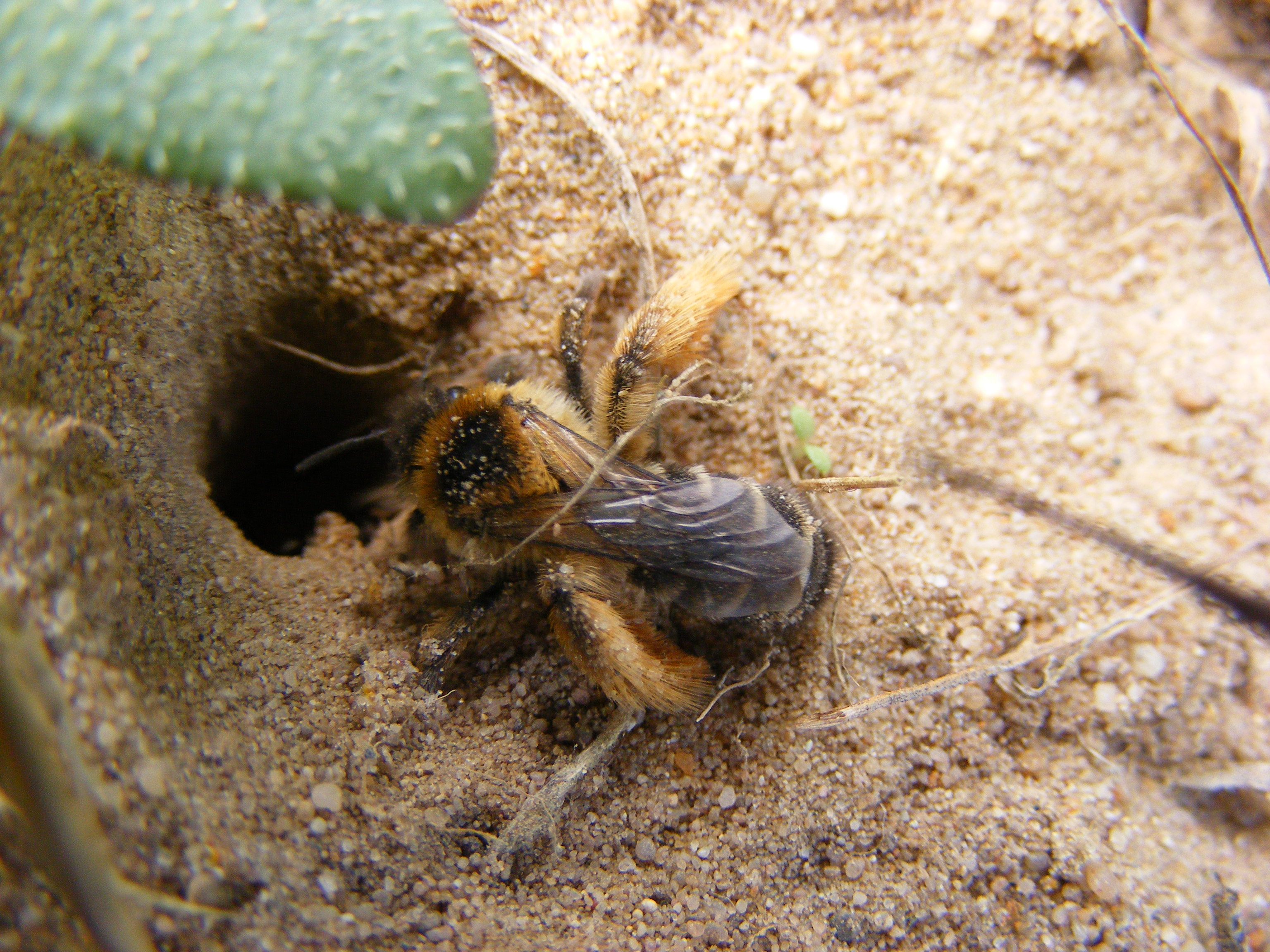 This photo shows Dasypoda altercator digging